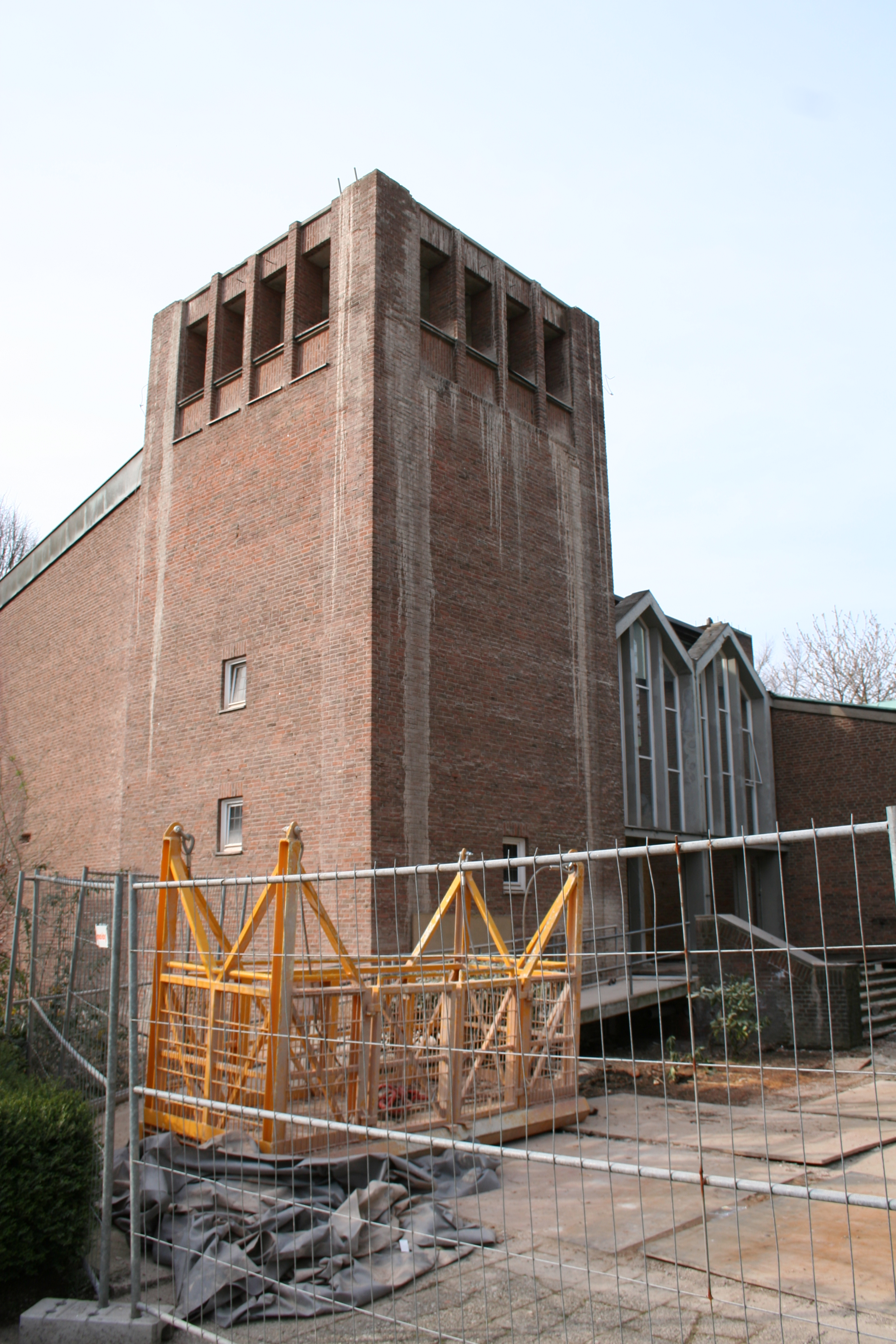 The Paul-Gerhardt-Kirche (Bielefeld, Detmolder Straße) during the coversion into the new synagogue.